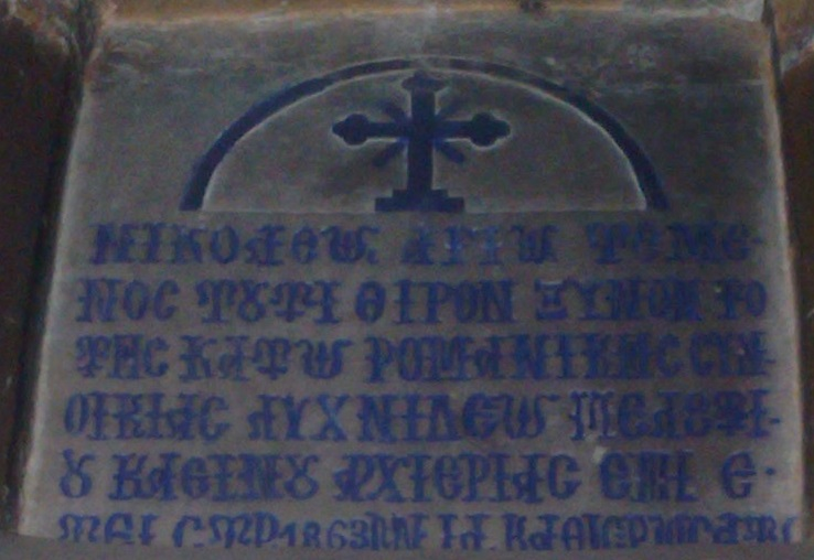 The church of St. Nicolas in Ohrid, Macedonia